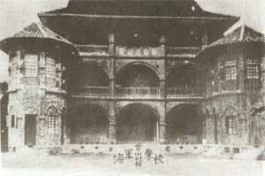 Mawei Naval Academy in Tongzi, Guizhou during World War II